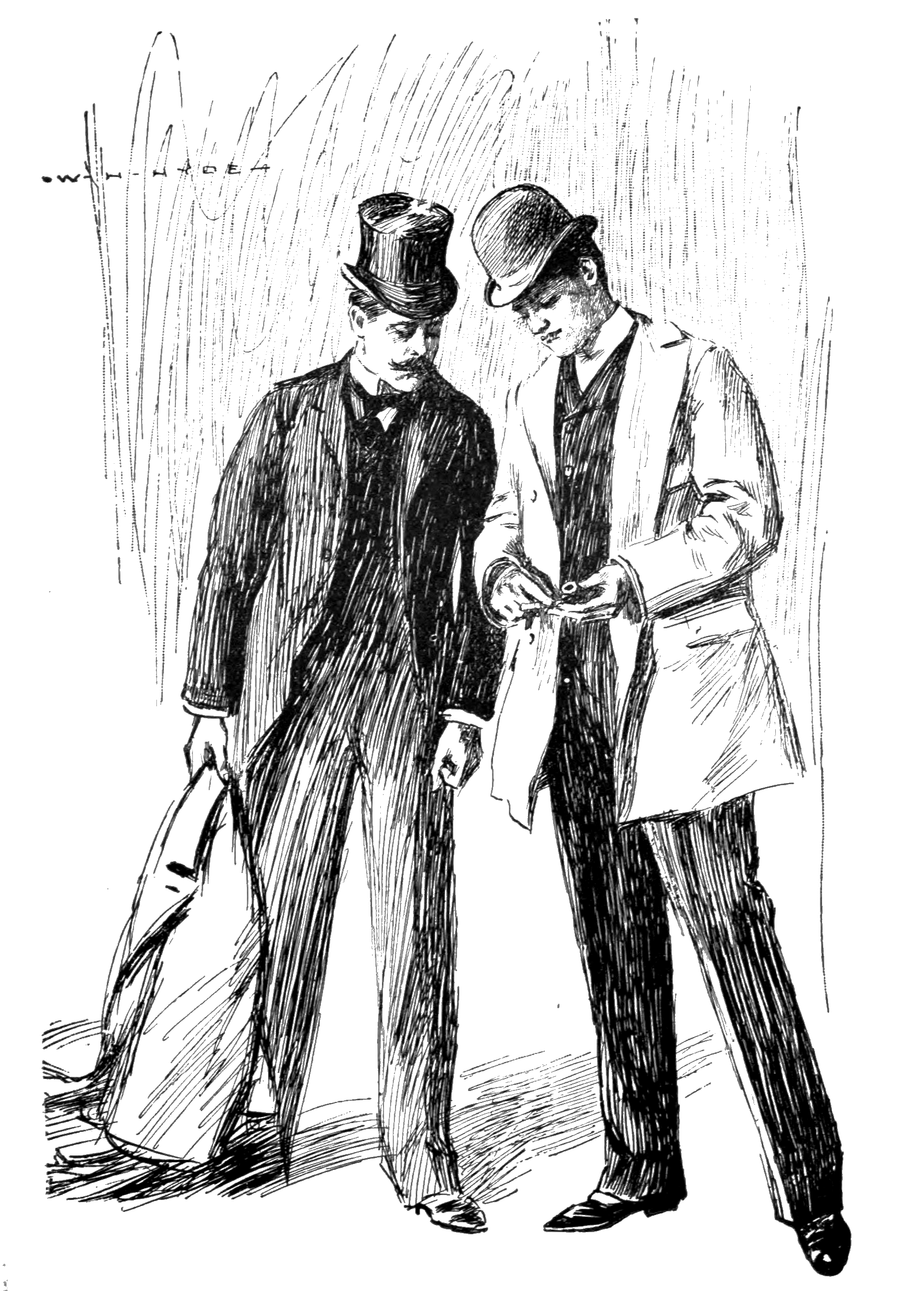 Second of the four illustrations included in the edition of Memoirs of Sherlock Holmes by Arthur Conan Doyle published in 1894 by A. L. Burt in New York. It illustrates a scene from "The Adventure of the Yellow Face". Original caption in Harper's Weekly was "'Pipes are occasionally of extraordinary interest,' said he."[1]